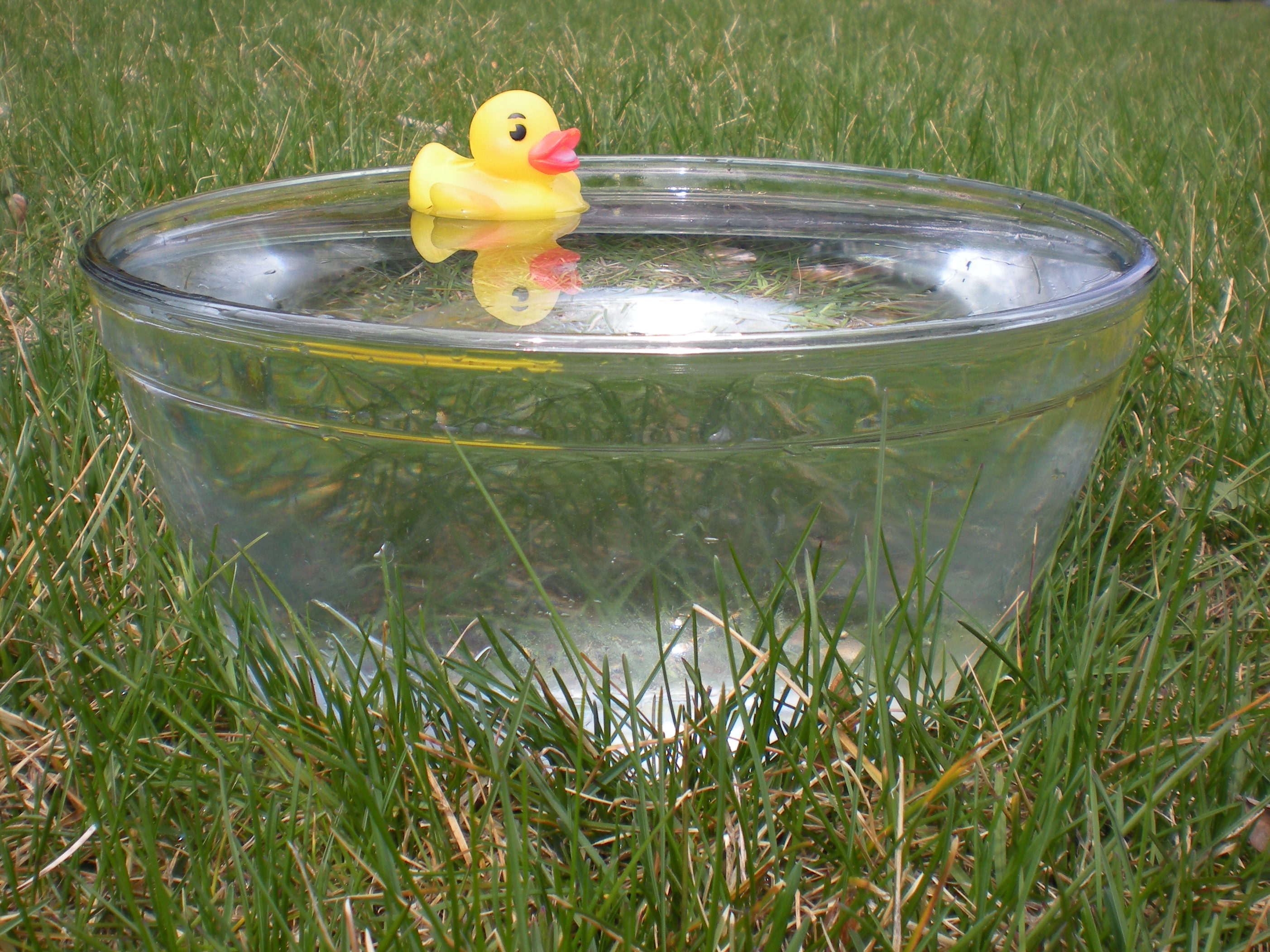 A yellow rubber duck floating in a glass bowl filled with water. The duck has a reflection. The bowl is set on grass.